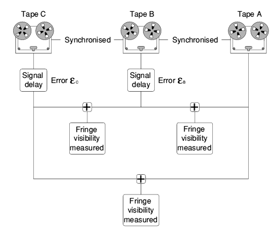 Data recorded at different VLBI telescopes are brought to a central location and played back with careful synchronization. The data are correlated (combined) to perform aperture synthesis.